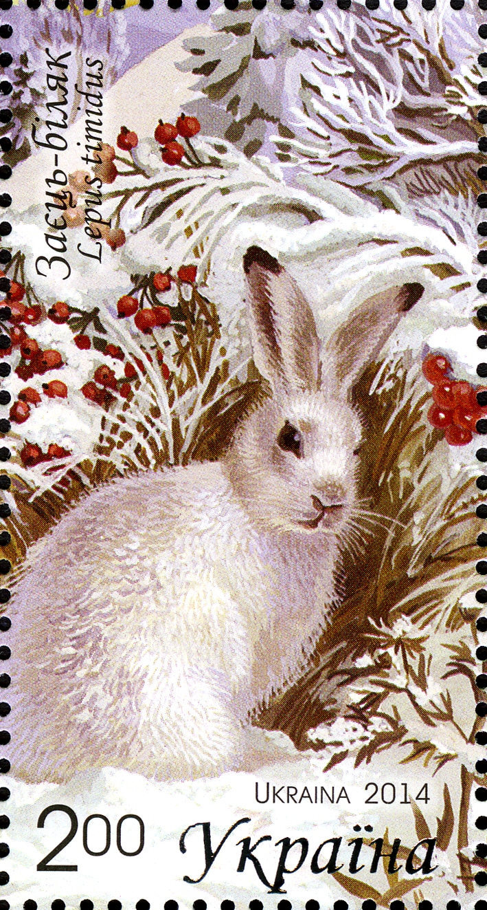 Stamps of Ukraine, 2014